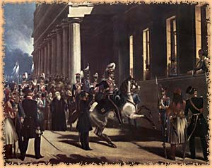 [1] 19th century painting.